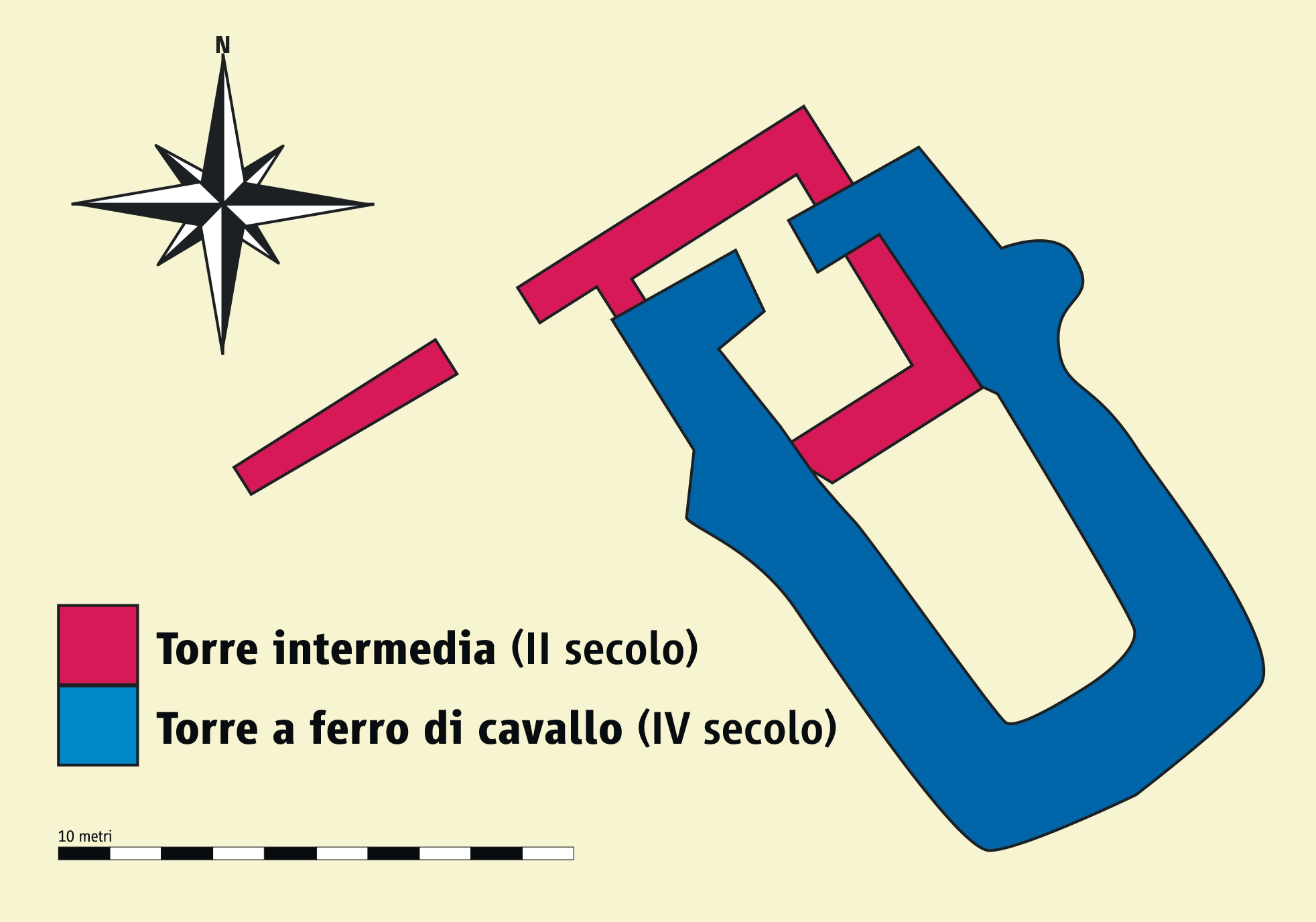 Floor plan of roman towers in Klosterneuburg/Austria (2. and 4. century)